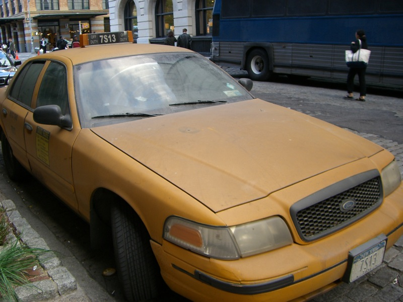 Post-apocalyptic taxi for the movie "I Am Legend"